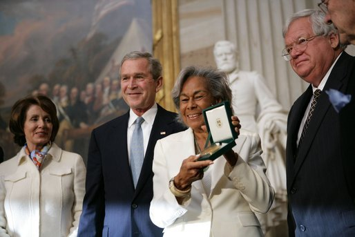 Rachel Robinson accepting the Congressional Gold Medal for her husband, deceased baseball star Jackie Robinson. From left to right: Congresswoman Nancy Pelosi, former President George W. Bush, Rachel Robinson, Congressman Dennis Hastert.